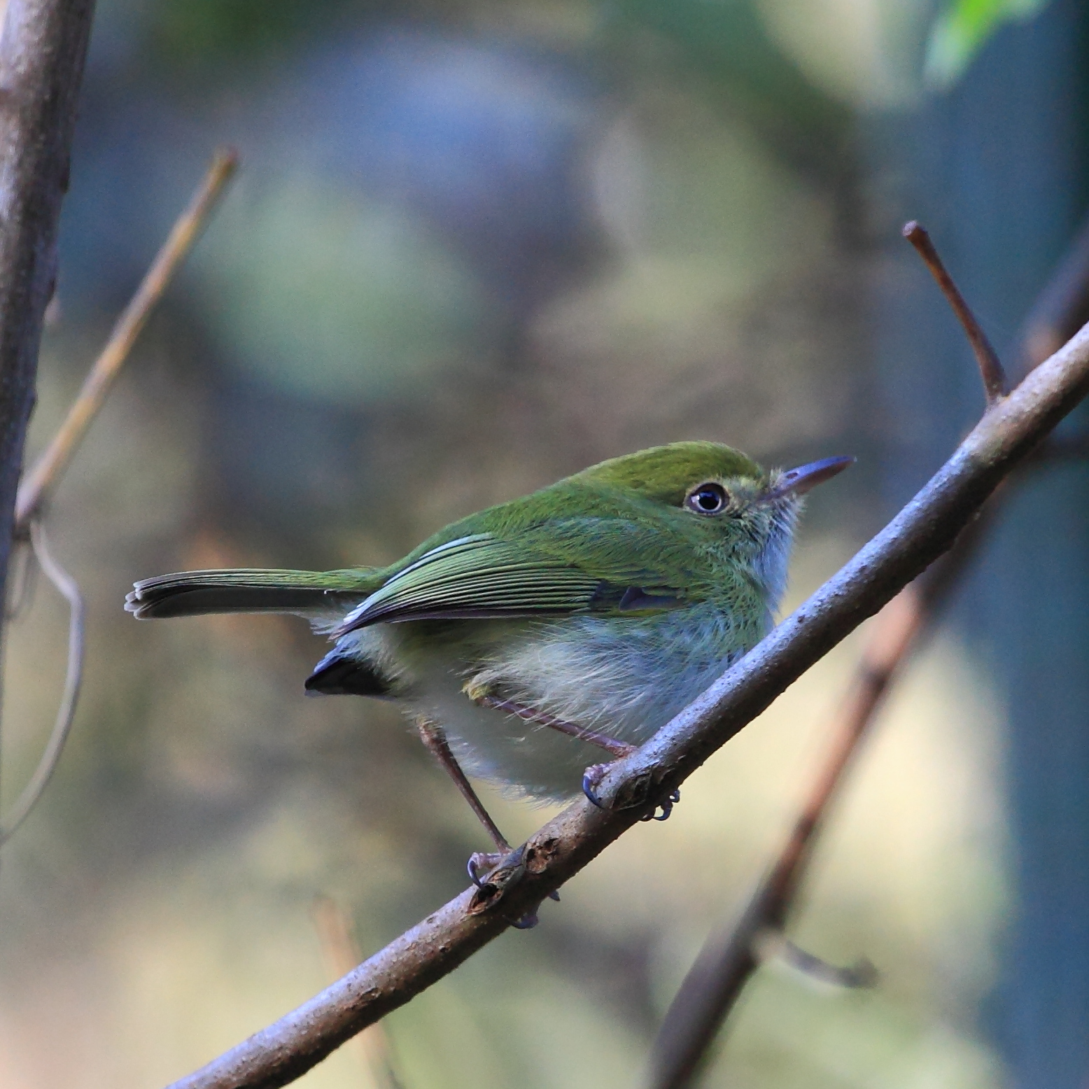 Hangnest Tody-Tyrant at Bocaina - SP - Brazil